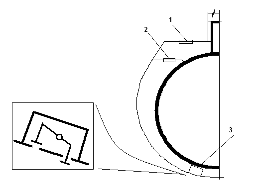 Diagram of submarine flooding valve construction.